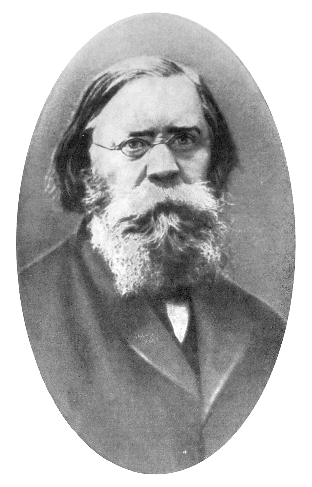 Petr Lavrovitch Lavrov